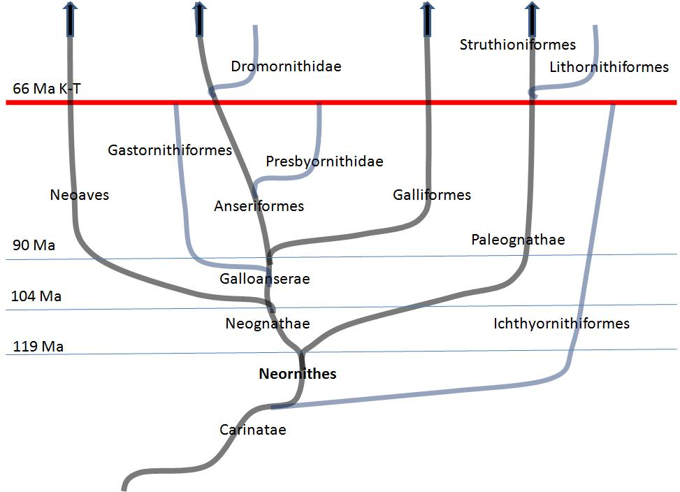 The avian tree around Neornithes in the Cretaceous+. Dates from M. van Tuinen & S. Blair Hedges (2001), Calibration of avian moleclar clocks. Mol. Biol. Evol. 18(2): 206-213.